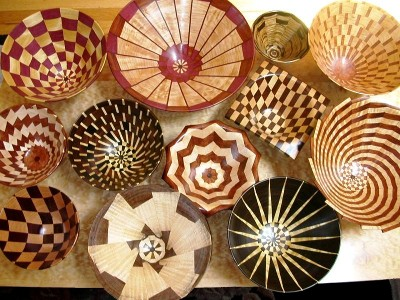 I am the author of both this image and the bowls. At present this can also be found at